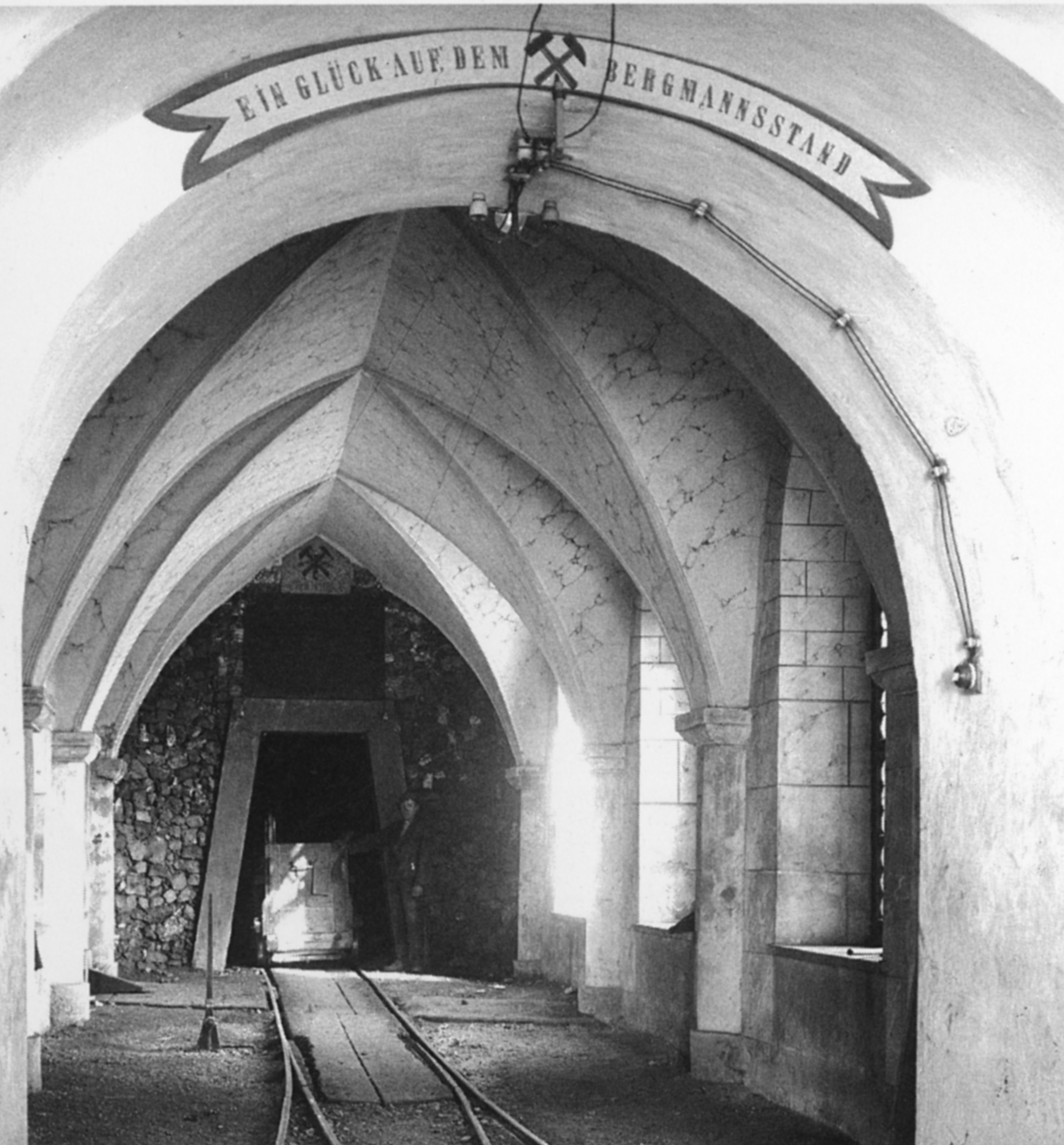 Petschar, Friedlmeier, Steiermark in alten Fotografien, Ueberreuther Verlag Wien. Scanprojekt Community Projektbudget 2012 This scan or this PDF-file was created within the GLAM-project Bookscanning, supported by Wikimedia Germany and Wikimedia Austria as a part of the community-project to capture books, documents and pictures which are not eligible to copyright or for which the copyright has expired. This document describes or depicts an object which is located in Austria today. Texts are written German language. Send requests for uncompressed scans to Hubertl. This work is in the public domain in its country of origin and other countries and areas where the copyright term is the author's life plus 100 years or less. You must also include a United States public domain tag to indicate why this work is in the public domain in the United States. This file has been identified as being free of known restrictions under copyright law, including all related and neighboring rights.